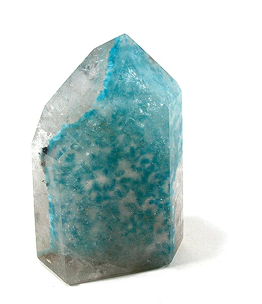 Gilalite, Quartz Locality: near Juazeiro do Norte, Ceara State, Northeast Region, Brazil Size: large cabinet, 7.1 x 4.7 x 2.7 cm GILALITE in QUARTZ This beautiful included quartz specimen is polished all around , to reveal the rich gilalite inside. This is an extremely rare mineral. It is not a natural crystal specimen, due to teh polishing, I admit, but it is nevertheless significant as heck. Also, there is enormous investment potential in that one could TRIM the specimen into numerous slices, each a salable example of this rare species included in quartz. It is said to be the finest specimen of only 5 that were found. Gilalite is a copper silicate hydrate. To quote Mineralogy of Arizona, abundant as green to blue-green coatings or thick botryoidal crusts on fracture surfaces in the rock, or replacing diopside. It had not to our knowledge been found in this form before! 7.1 x 4.7 x 2.7 cm